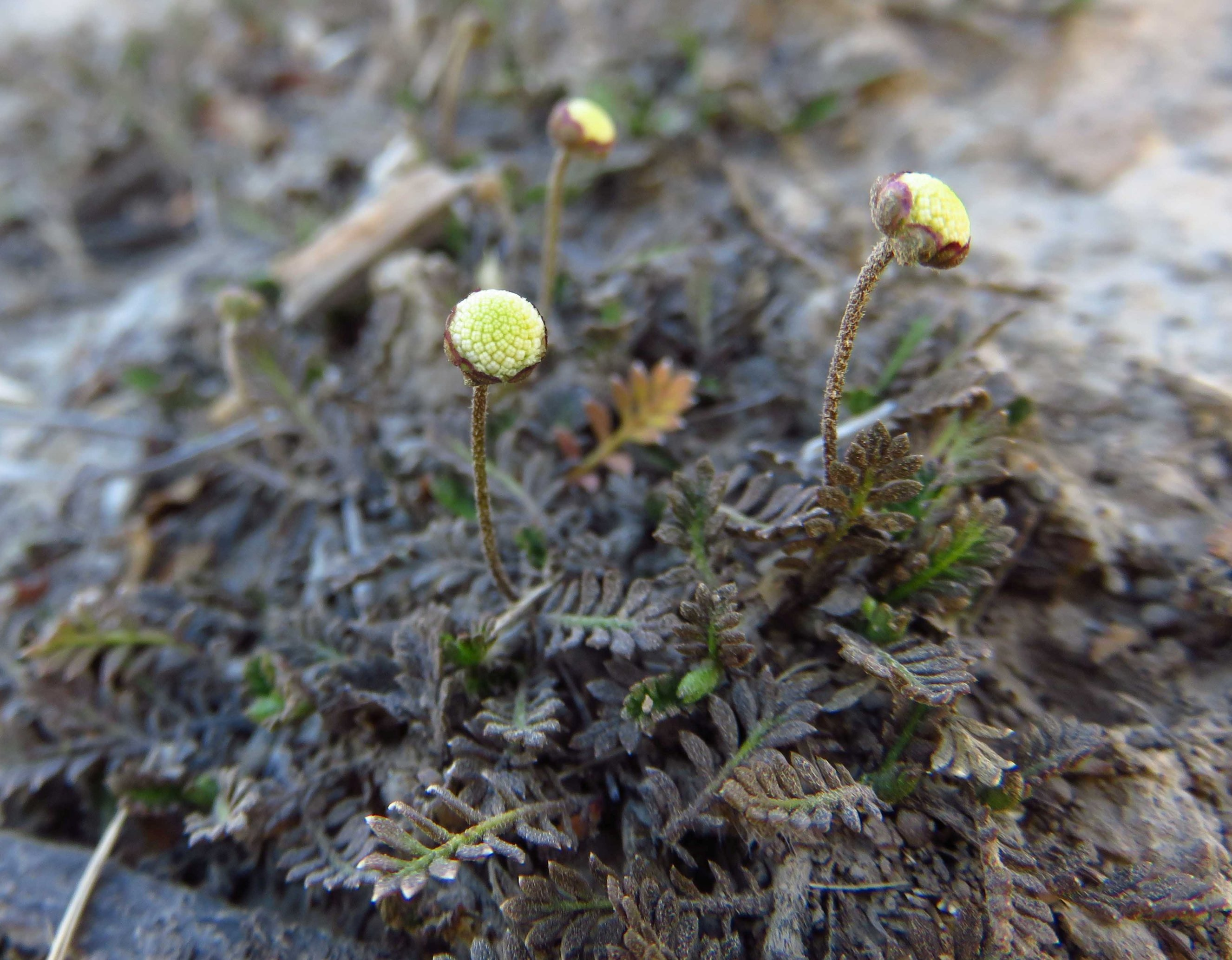 Leptinella filiformis, rediscovered growing in the wild at Molesworth Station, South Island, New Zealand, in summer 2015.